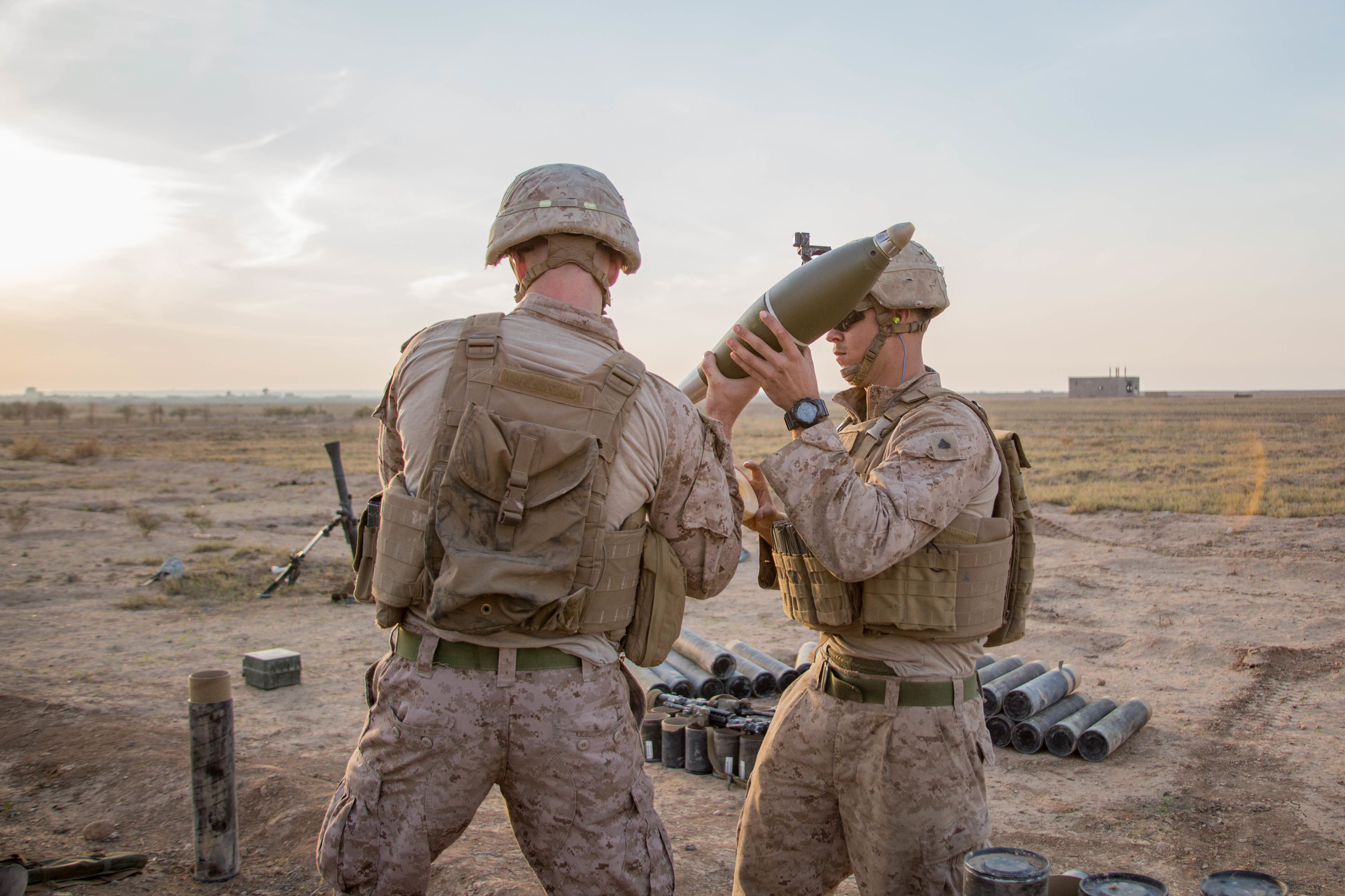 3rd Battalion, 4th Marines loading 120mm mortar rounds during Operation Inherent Resolve in Syria, 2018